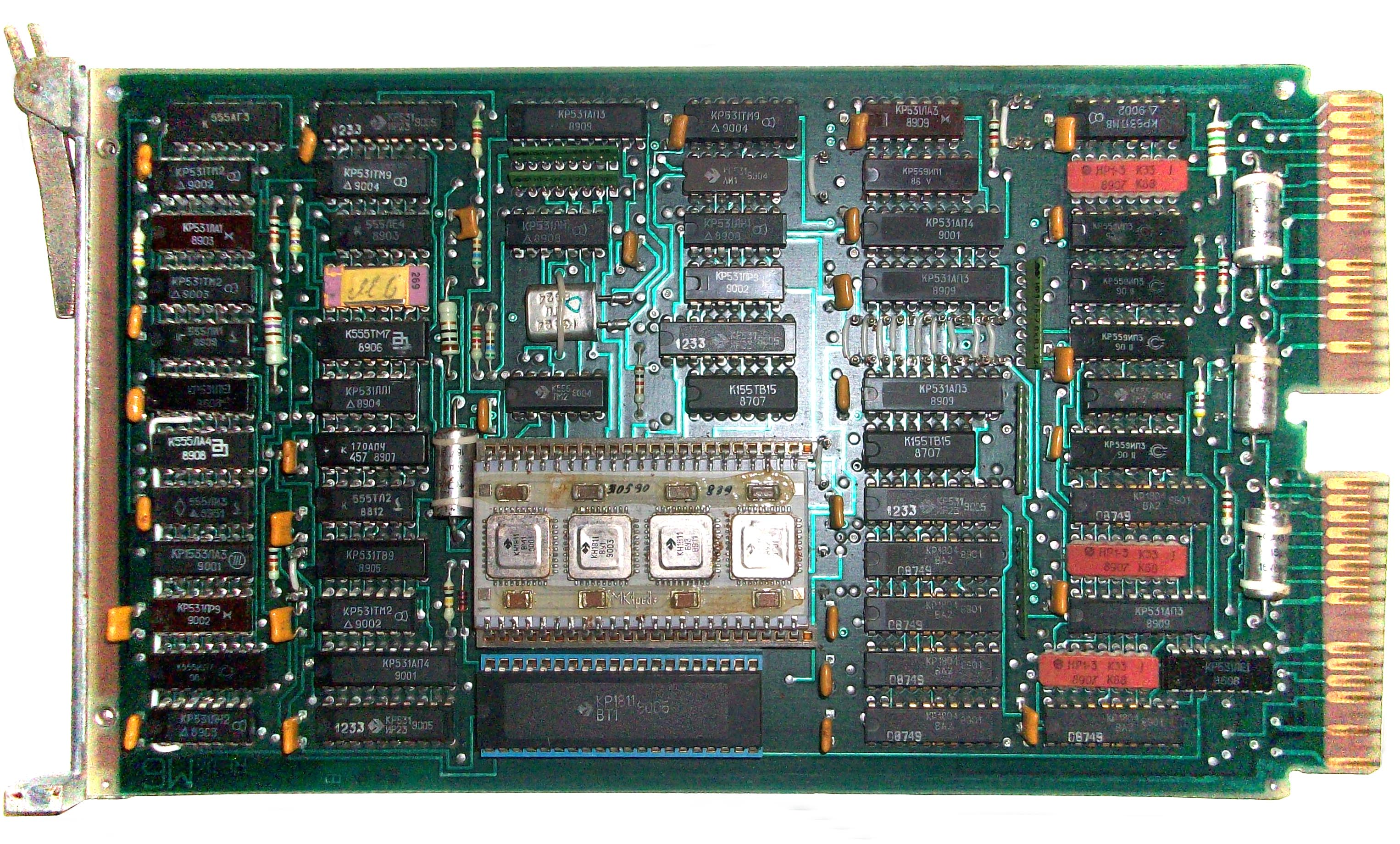 Electronika-60-1 CPU board M6